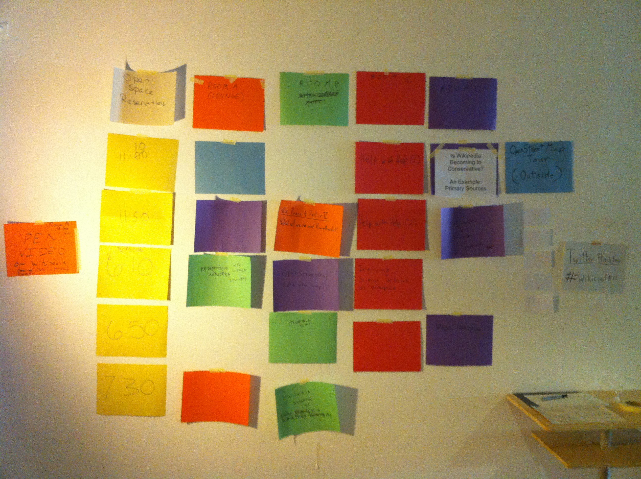 Wiki-Conference NYC 2010